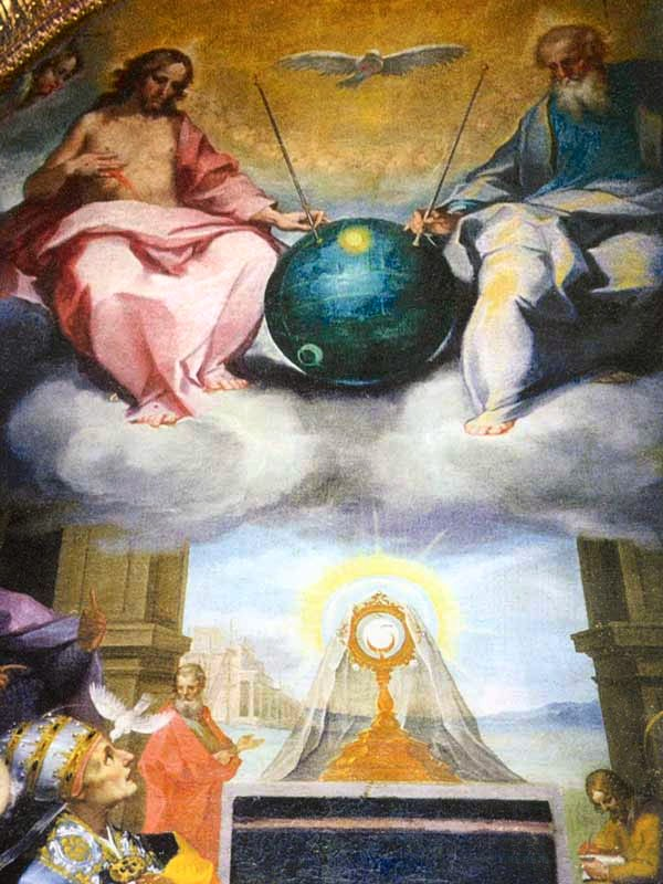 The so called UFO or “Sputnik” of Montalcino. This is actually the name so often used by certain sites to refer to the object between the figures of the Holy Trinity, which is not an UFO. That object, painted in many Trinity representations, is a symbol of the "Celestial Sphere", and in this particular painting contains the illustration of the Sun and the Moon.